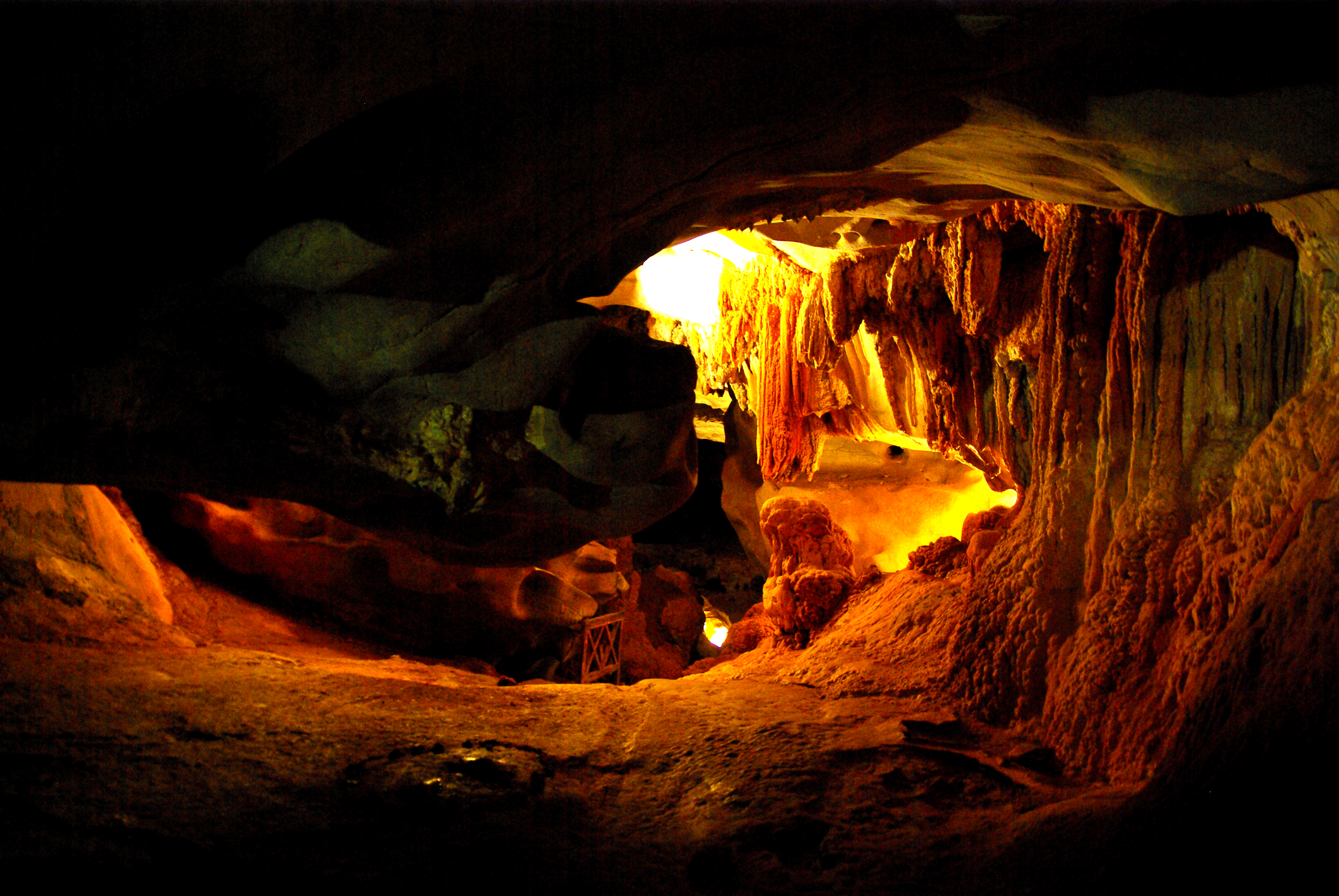 Ubajara (3)